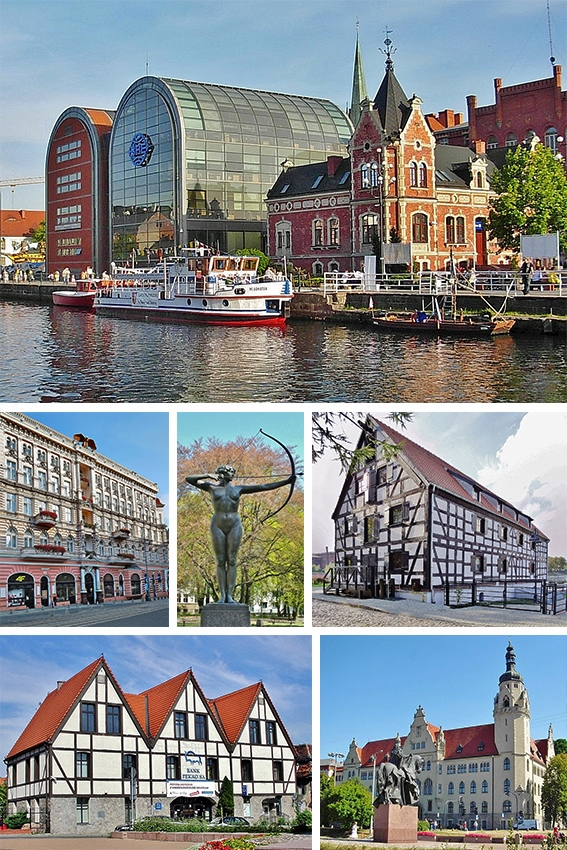 Collage of views of Bydgoszcz, Poland